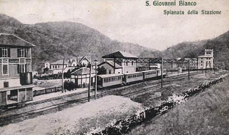 San Giovanni Bianco railway station